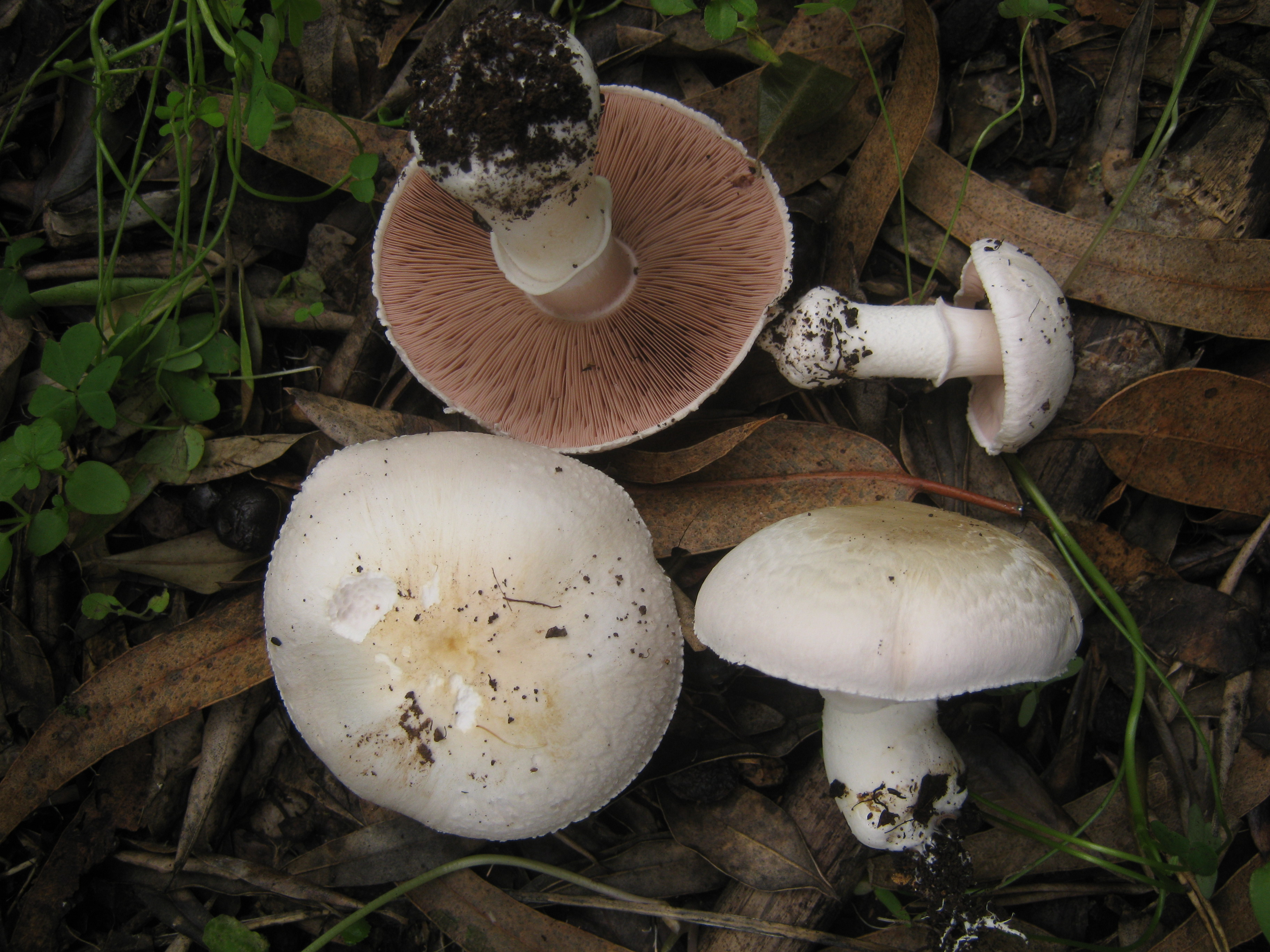 Agaricus bresadolanus Bohus, photographed in Parque de Monsanto, Lisboa, Portugal.